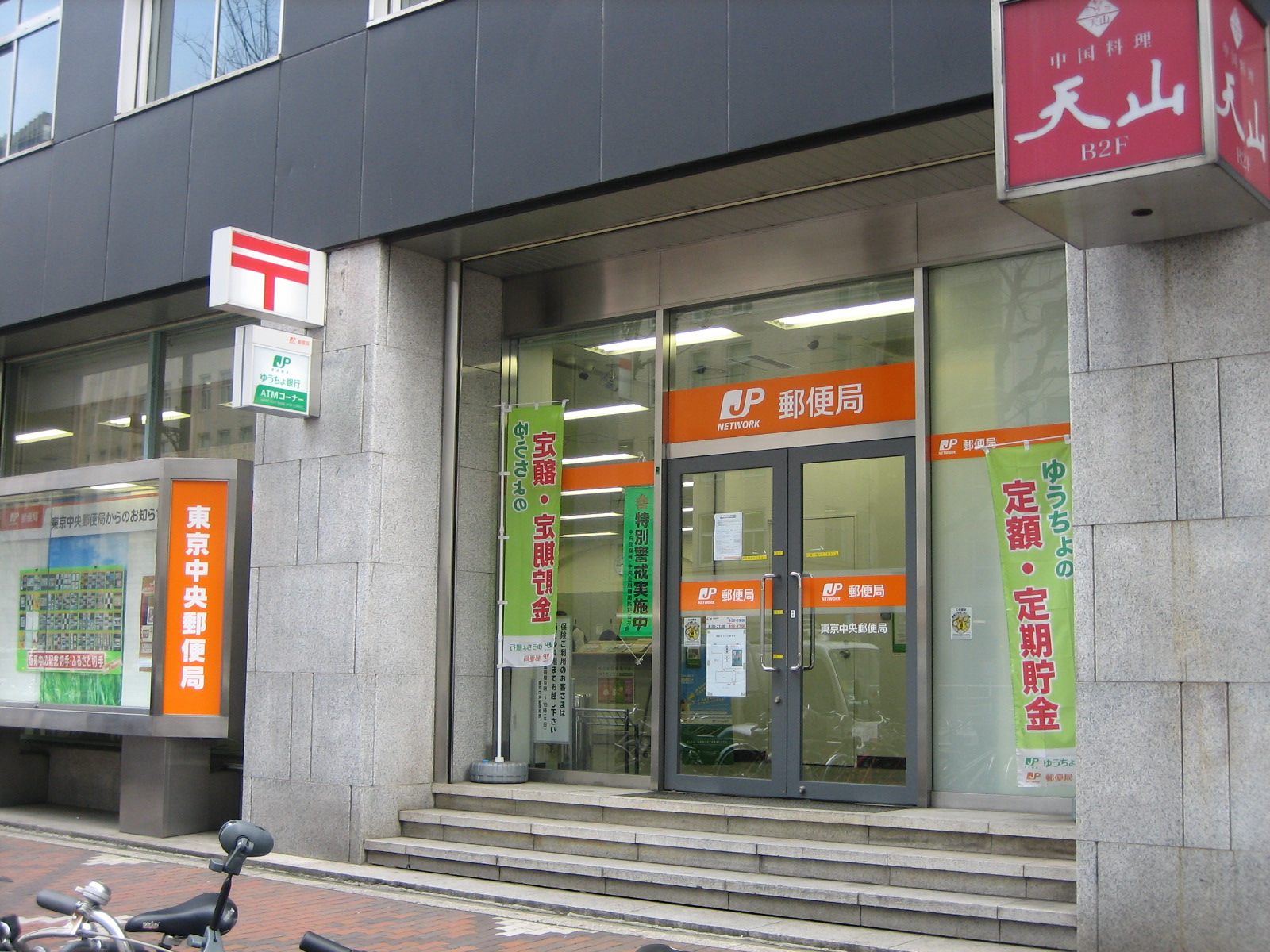 Tokyo central post office (tentative)